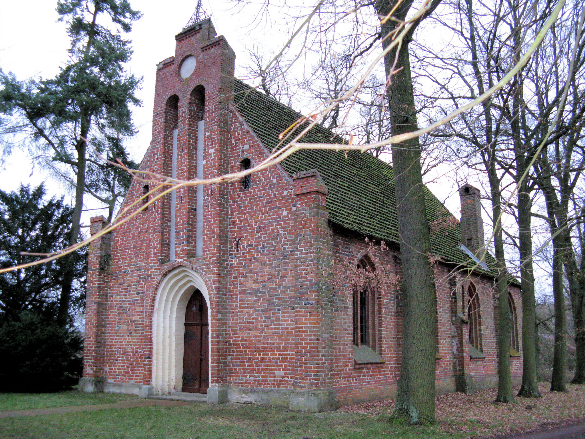 Church in Kraak, Mecklenburg-Vorpommern, Germany